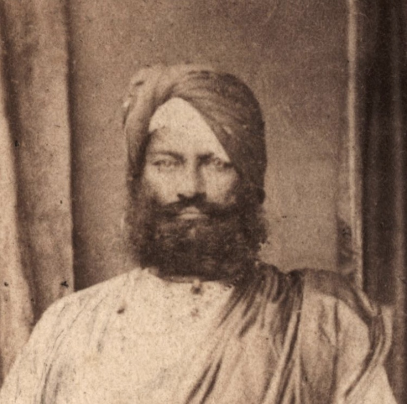 Sole existing photograph of Lal Singh. Taken in Agra or Dera Doon circa 1855-1860. The scars left by smallpox on Lal Singh's face are faintly visible.